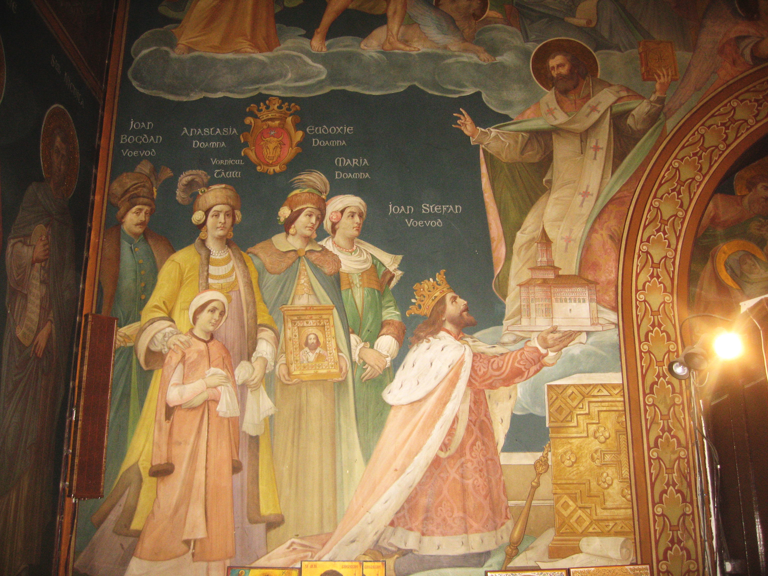 Biserica Sf. Nicolae Domnesc din Iași, România